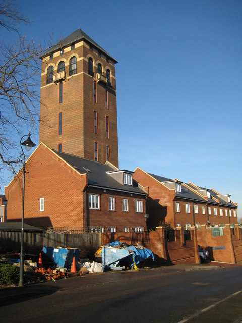 Shenley Tower This landmark Italianate structure was originally built in 1932 as the water tower for the former Shenley Hospital, which closed in the 1990s. As part of the redevelopment of the hospital site for residential purposes the tower has been converted into six duplex apartments, which were completed in 2005. The houses clustered around the base of the tower form part of the gated Blenheim Mews development. The builders' skips are an indication of the recent completion of the construction work. The top of the tower is reputedly about 49 metres, or about 160 feet, above ground level, and is said to offer views across Hertfordshire, London, Essex, Bedfordshire and Buckinghamshire. This view was taken from Laxton Gardens. (From a cartographical and Geograph point of view the tower more or less straddles the 201000 Northing grid line. From the Ordnance Survey 1:10,000 scale mapping, the façade of the tower on the left side of the photograph is in this grid square TL1800, while the façade on the right side is in TL1801.)